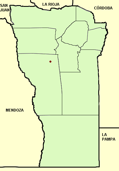 It shows administrative boundaries of San Luis province in Argentina, its departments and its capital (San Luis city).